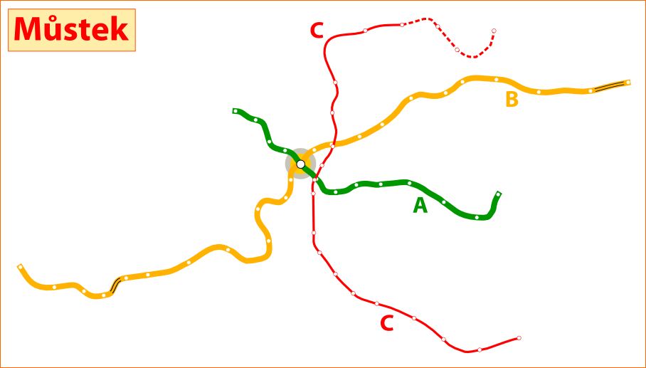 Můstek - Prague metro station.